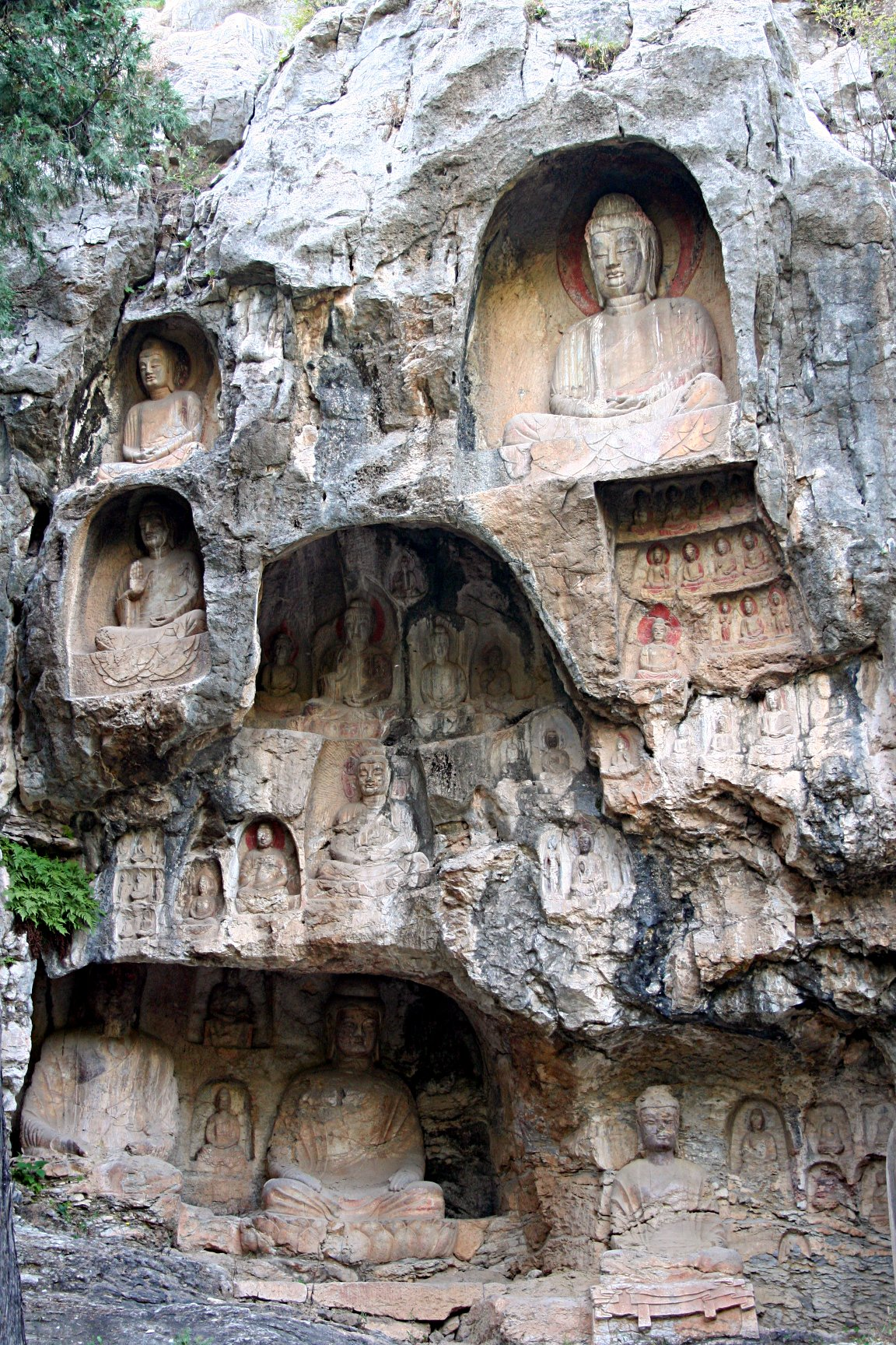 Photograph of carved sculptures on the Thousand Buddha Cliff in Shandong Province, China.